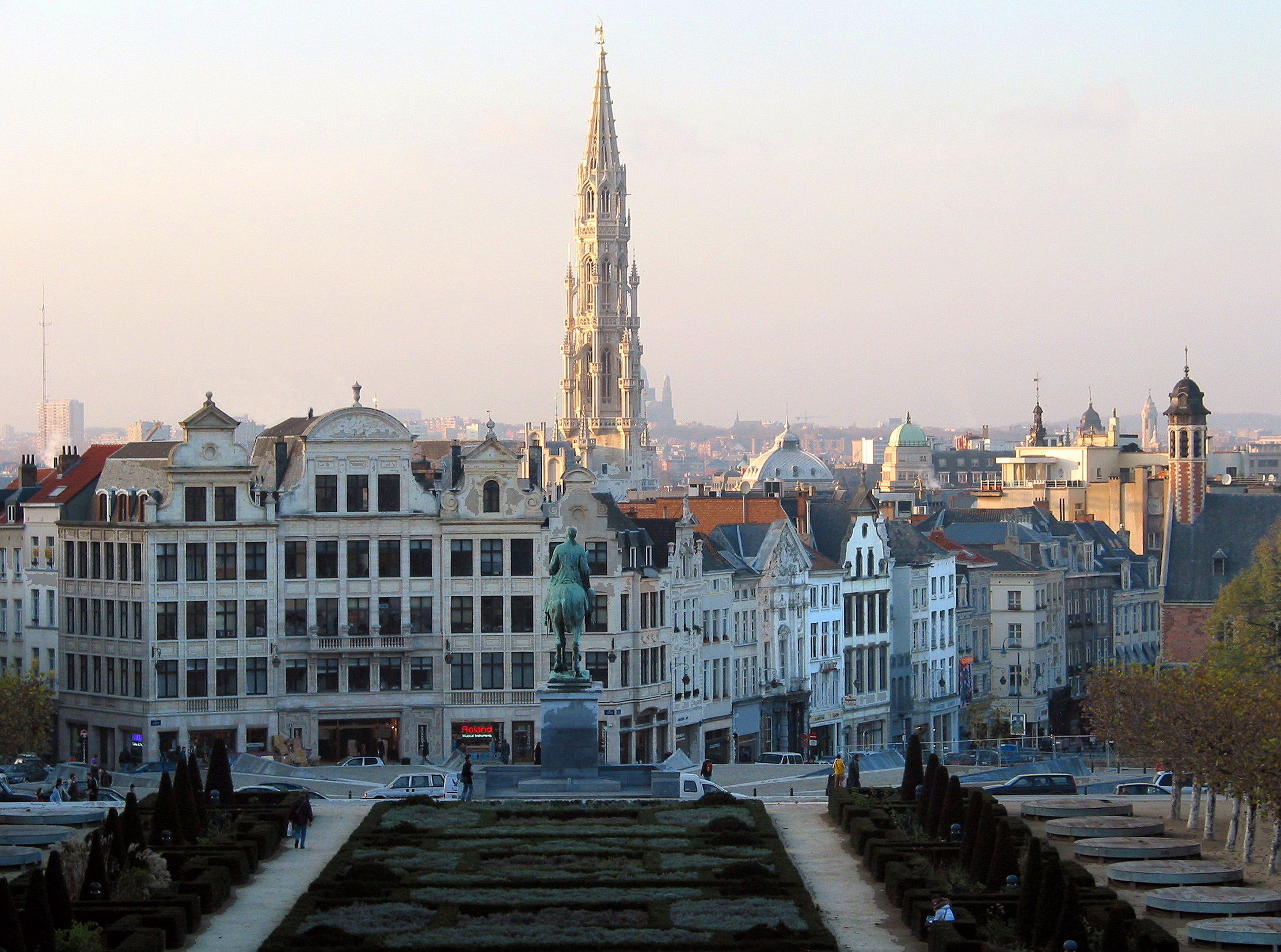 Brussels (Belgium), the City Hall and the center of the old town seen from the Mont des Arts.